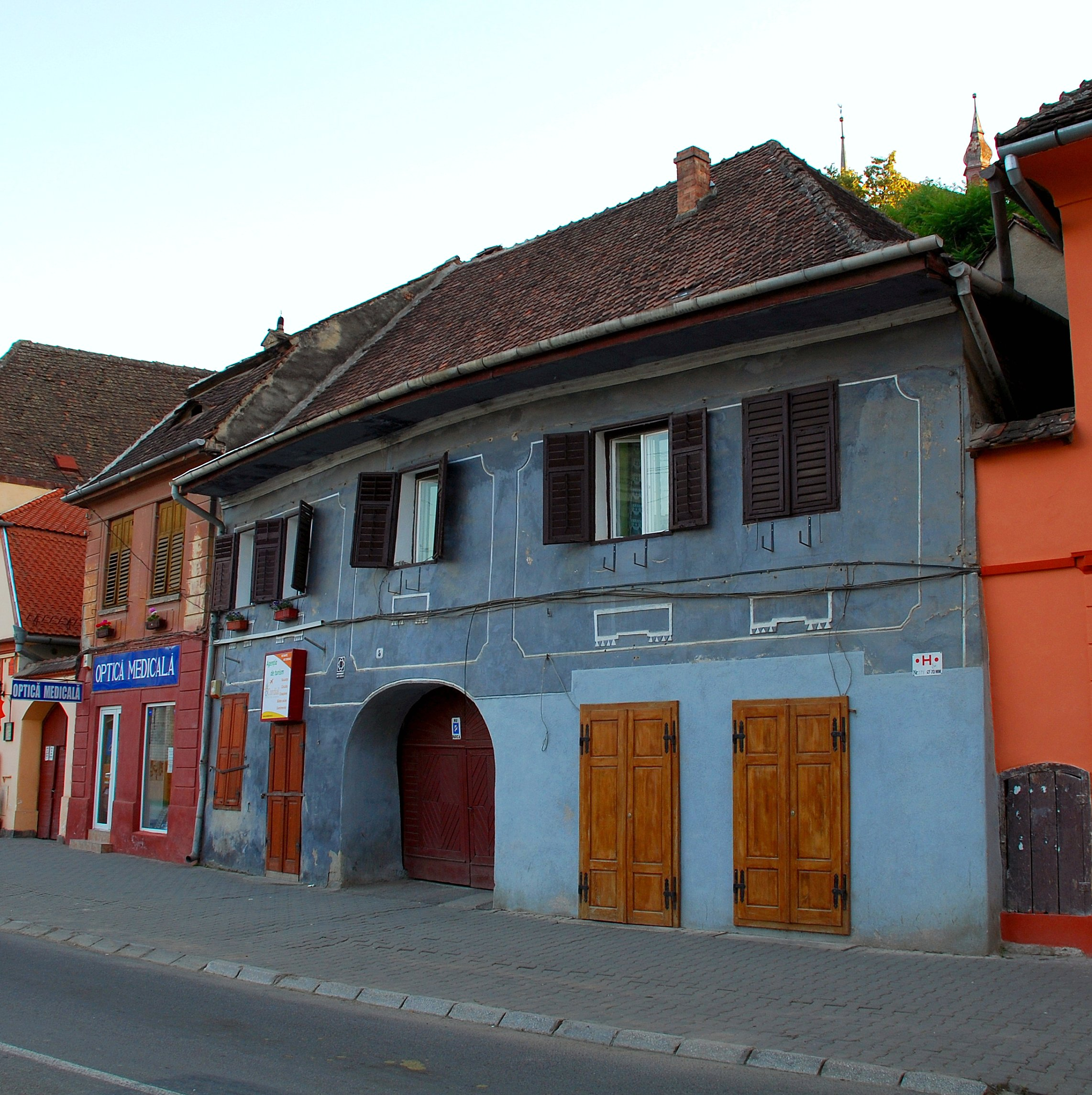 More info: My photostream